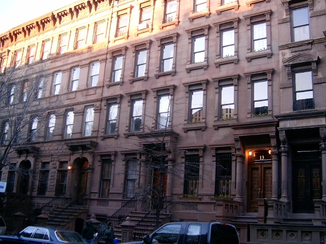 Harlem residential Brownstones, near 125th Street, mid-December 2004